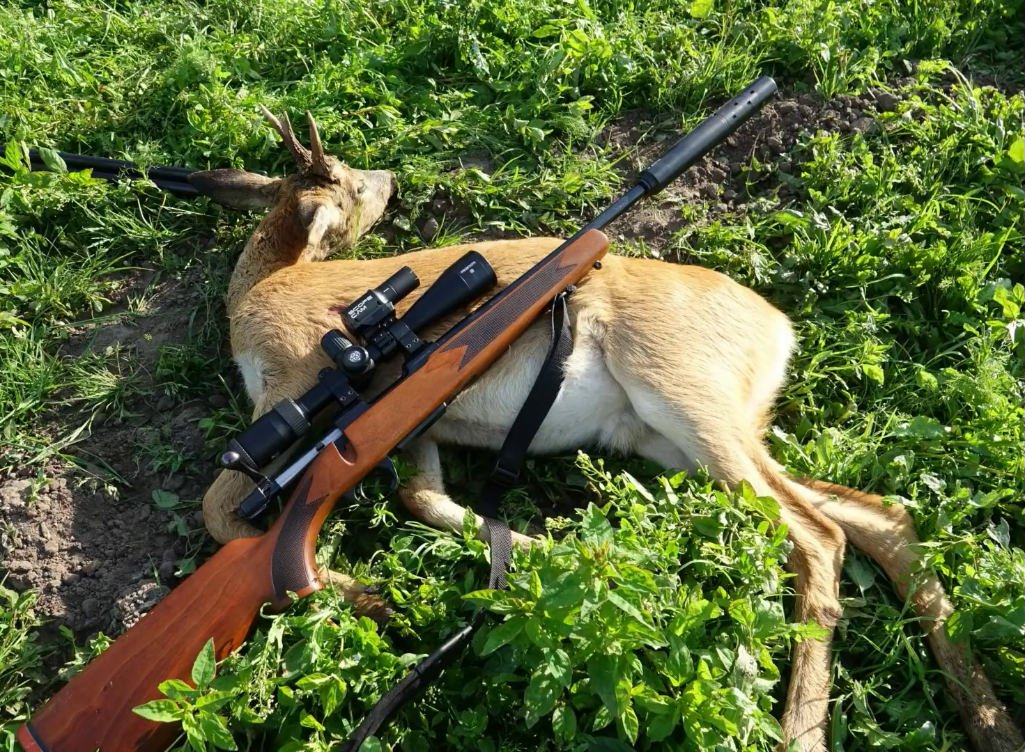 Roe deer shot at a distance of 40 meters from a high seat with a suppressed Sabatti Rover 600 rifle chambered in .223 Rem. (using a Hornady GMX 55 Gr. bullet), Denmark